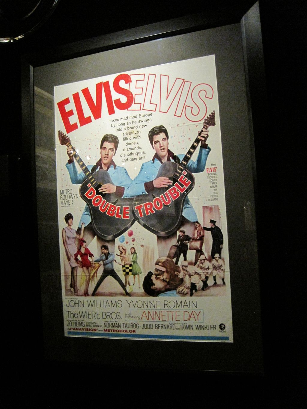 Graceland, Memphis, Tennessee, during Elvis Week 2013